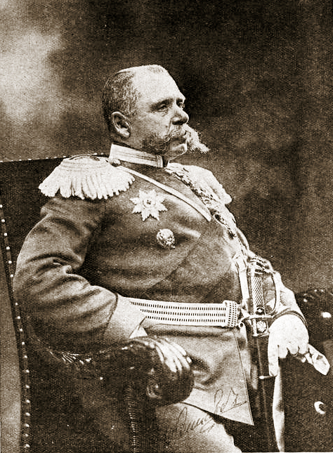 Adjudant-General, General of the cavalry, Paul Karlovich von Rennenkampf.